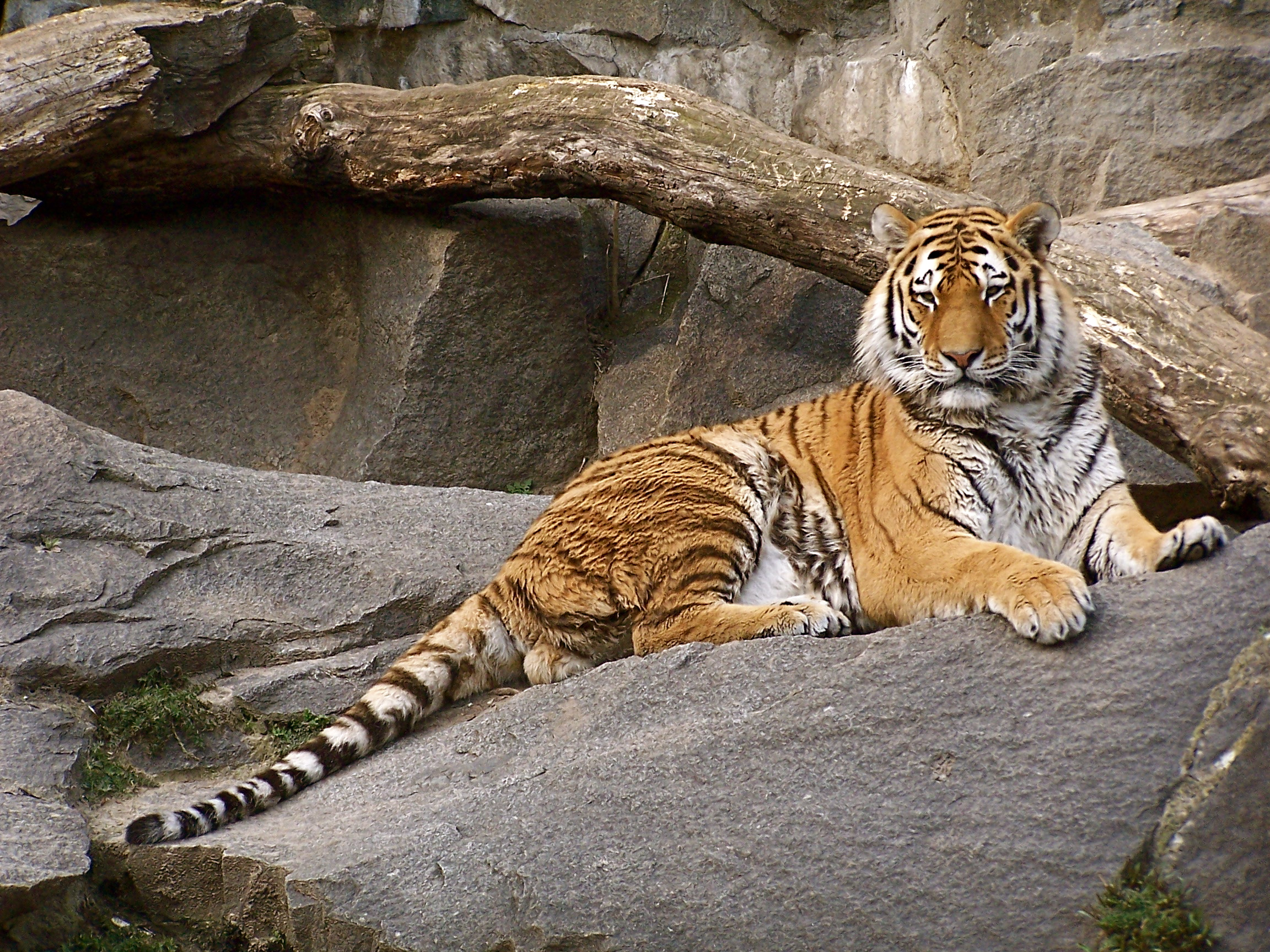 Panthera tigris altaica (Siberian Tiger) at Tierpark Berlin